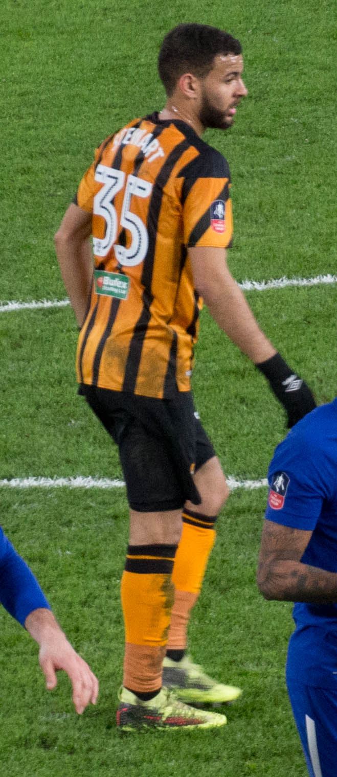 FA Cup 5th round 16.2.18